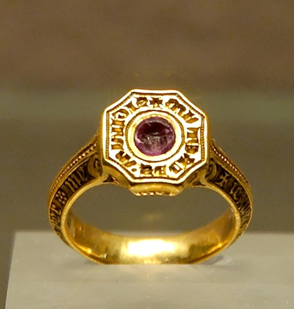 Signet-ring of the Black Prince (1330–1376). Gold (originally enameled) and ruby, late 14th century. Found in Montpensier (Auvergne, France), 1866.